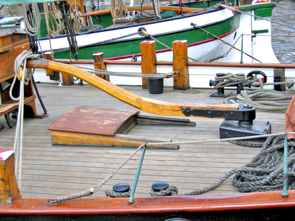 Author =MaciejKa Source =MaciejKa